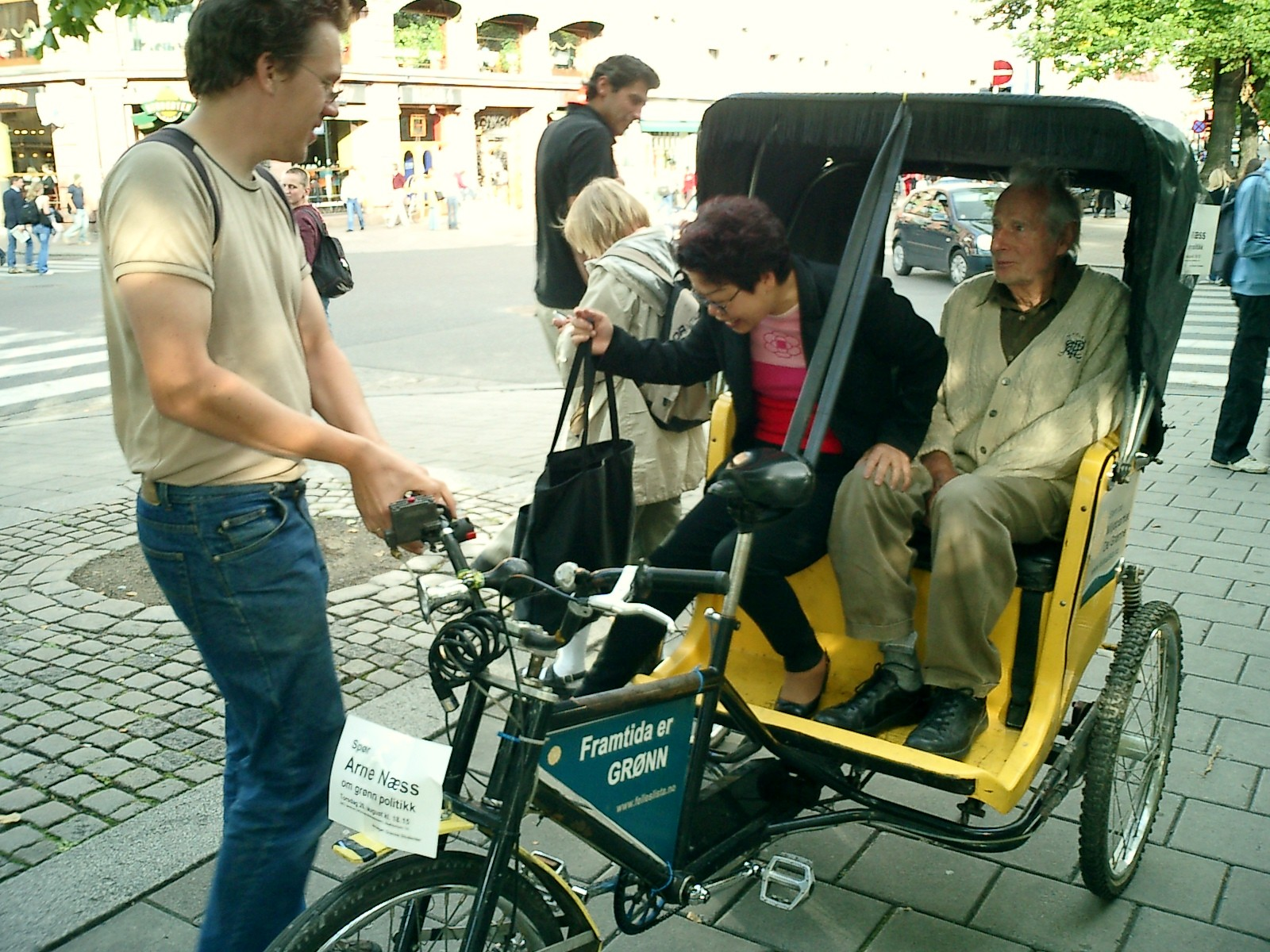 Professor Arne Næss (right), campaigning for the Norwegian Green party, in 2003.